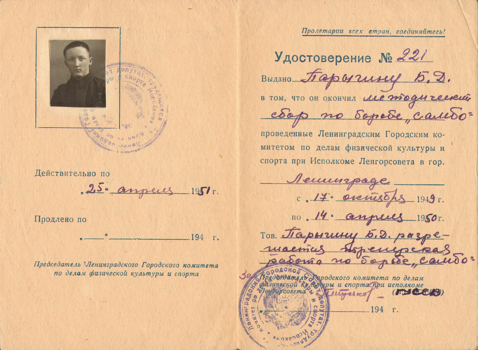 Boris Parygin. Sambo. Certificate of trainer. Leningrad. 1950, April 14.